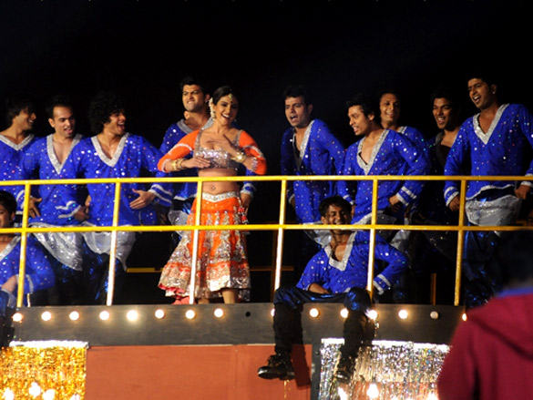 Priyanka Chopra performing at 18th Annual Colors Screen Awards 2012